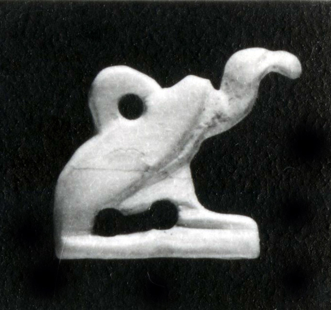 Amulet, Vulture